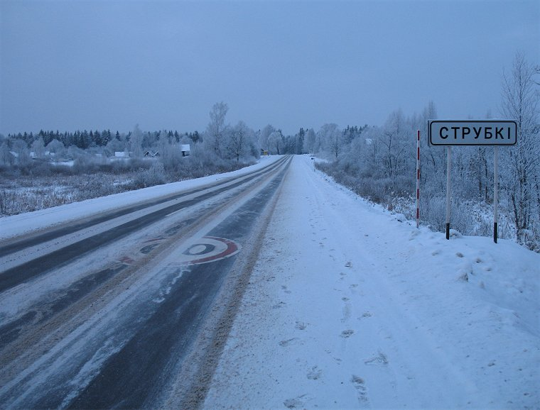 National road P20 with sign showing start of village Strubki, Vitebsk region (oblast), Belarus. This is located about 20 km from way from Polatsk towards the Latvian border and Daugavpils (Latvia). Note that white traffic sign like this marks not only the name of the village or city, but also start of 60 km/h speed limit!